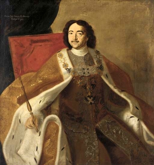 Portrait of Tsar Peter the Great